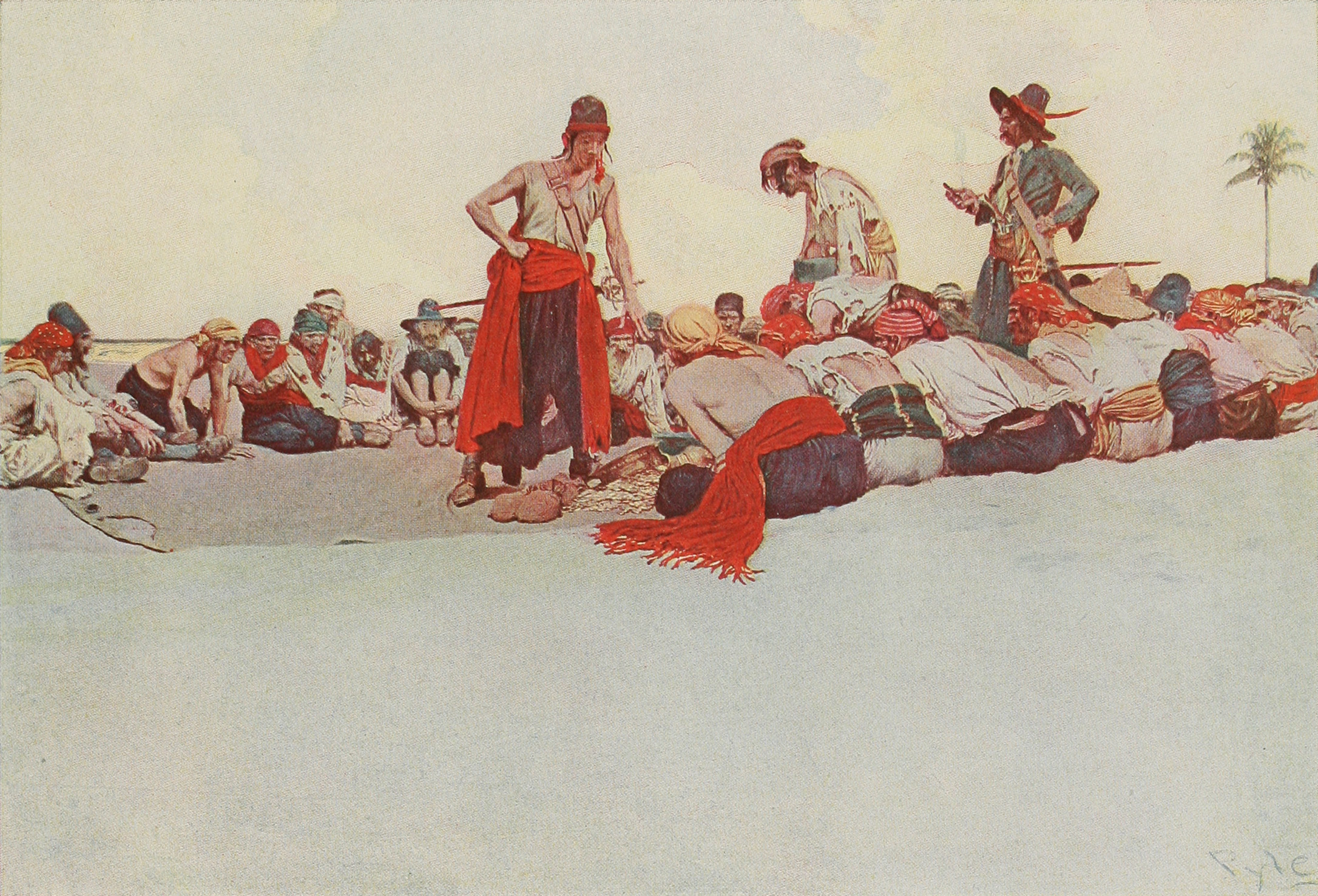 So the Treasure was Divided: pirates dividing their loot. The oil painting, which the illustration was of, was sold in 1905, and is currently part of the Delaware Art Museum's collection.[1]